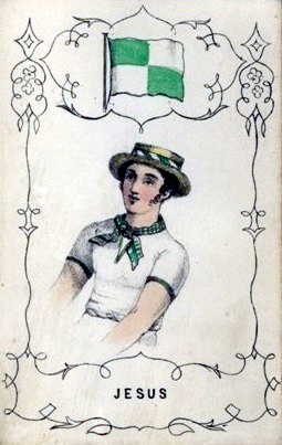 A crop of the Jesus College entry from pictures of Oxford college rowing jerseys - booklet of lithograph plates - 2 of 6 - c. 1848